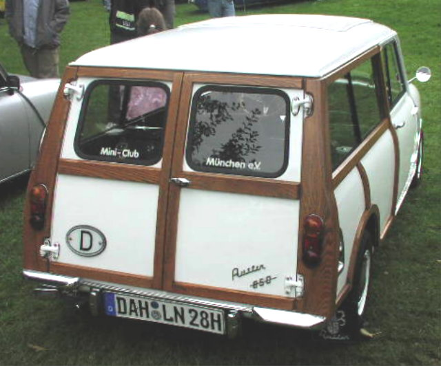 Austin Mini 850 Estate (Woody)